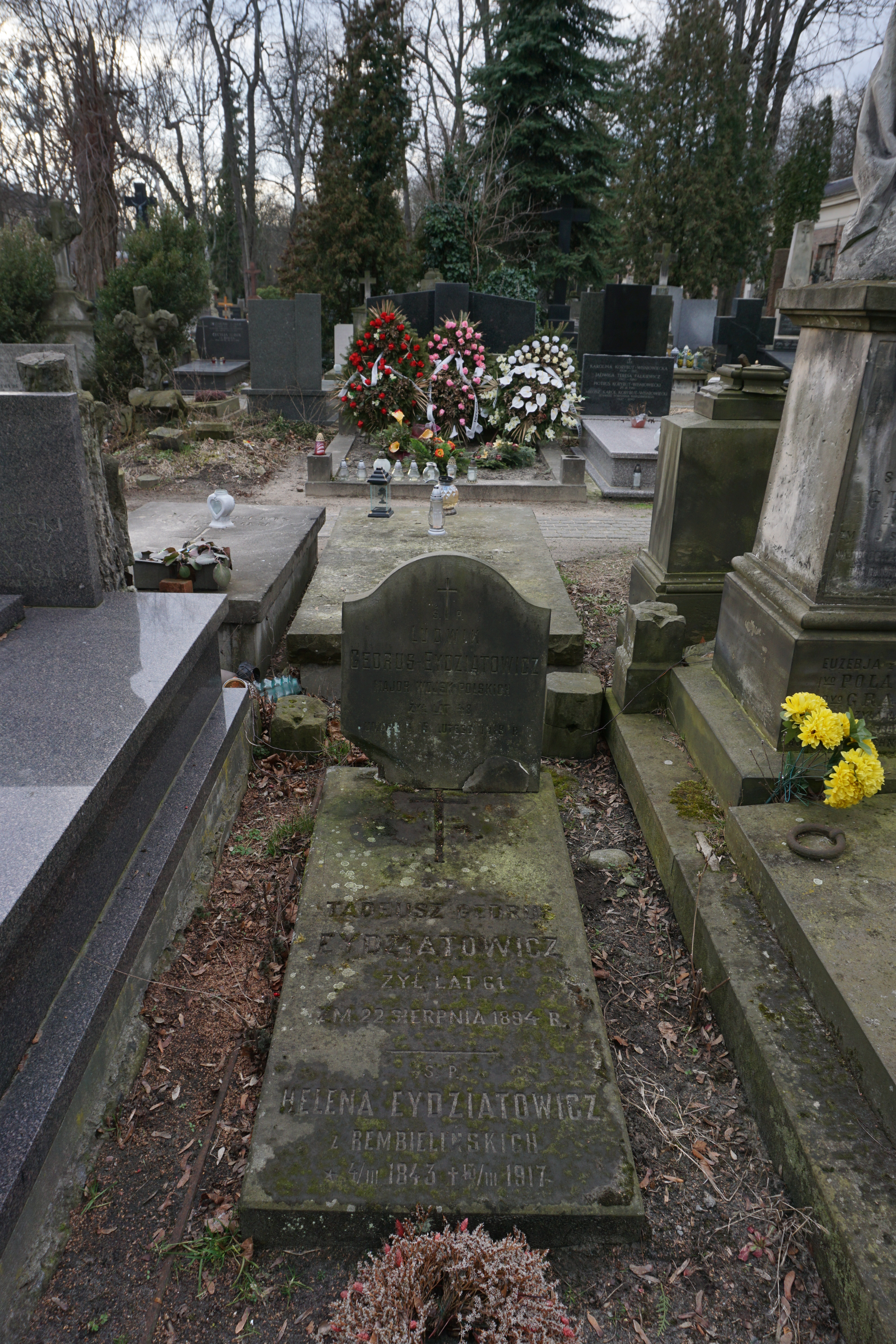 The grave of Ludwik Eydziatowicz at the Powązki Cemetery (section 166, row 3, grave 13)